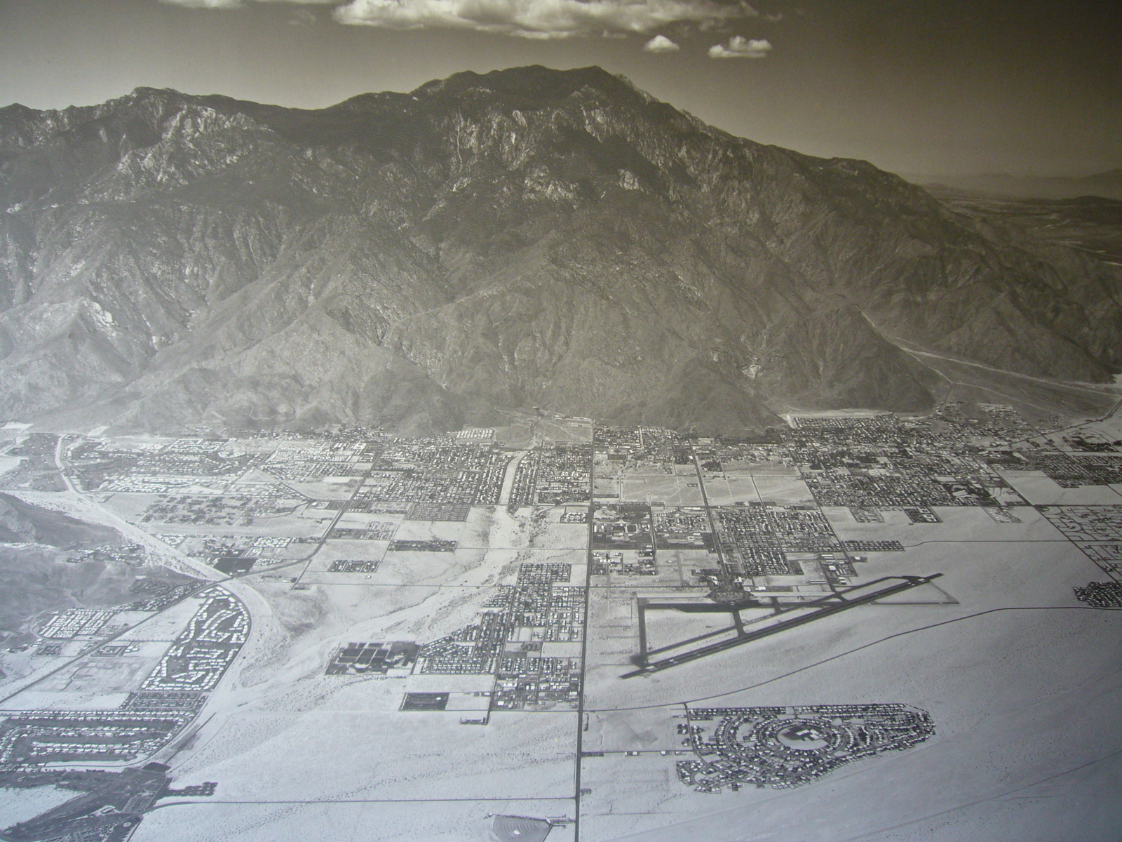 Aerial photo of Palm Springs, California. Most of the open areas are now developed. This is looking west directly in line with Ramon road.